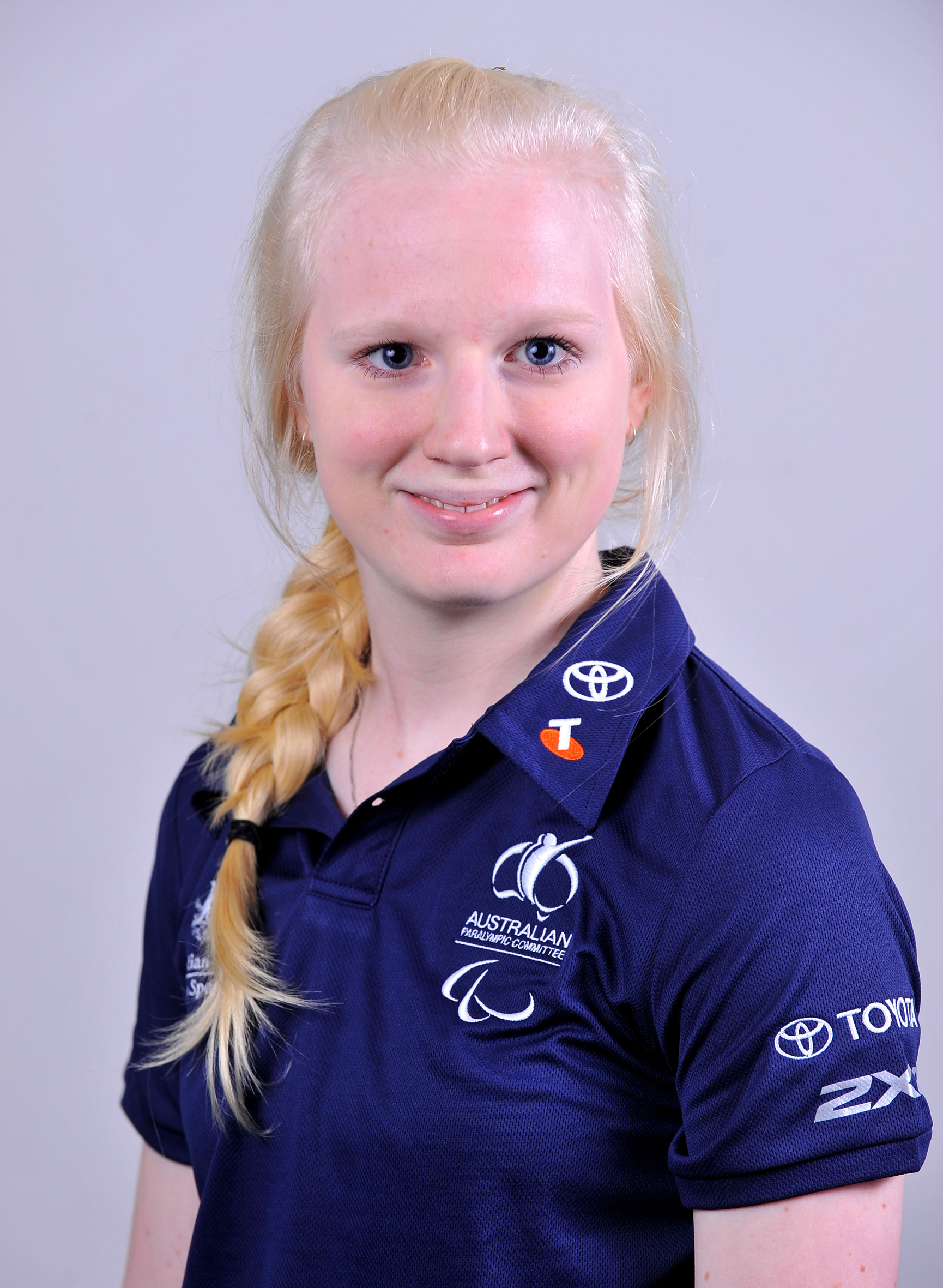 Portrait of Australian goalball player Jennifer Blow, 2012 Australian Paralympic (shadow) Team athlete